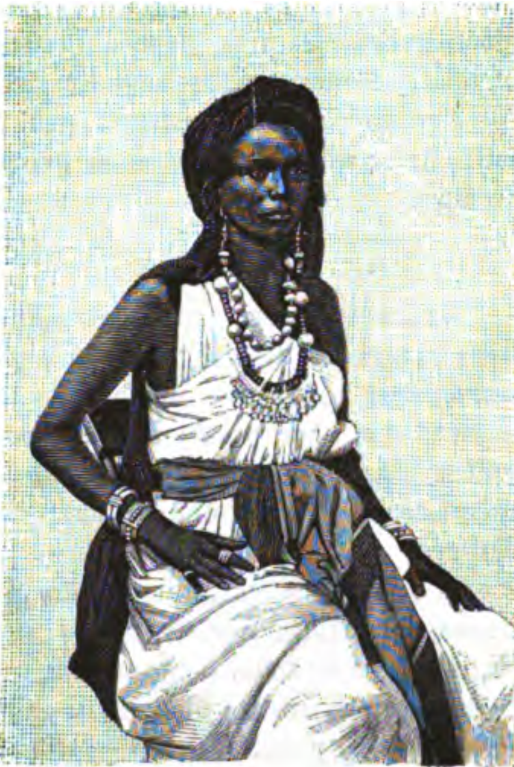 Somali woman from Berbera belonging to the Habr Awal clan.